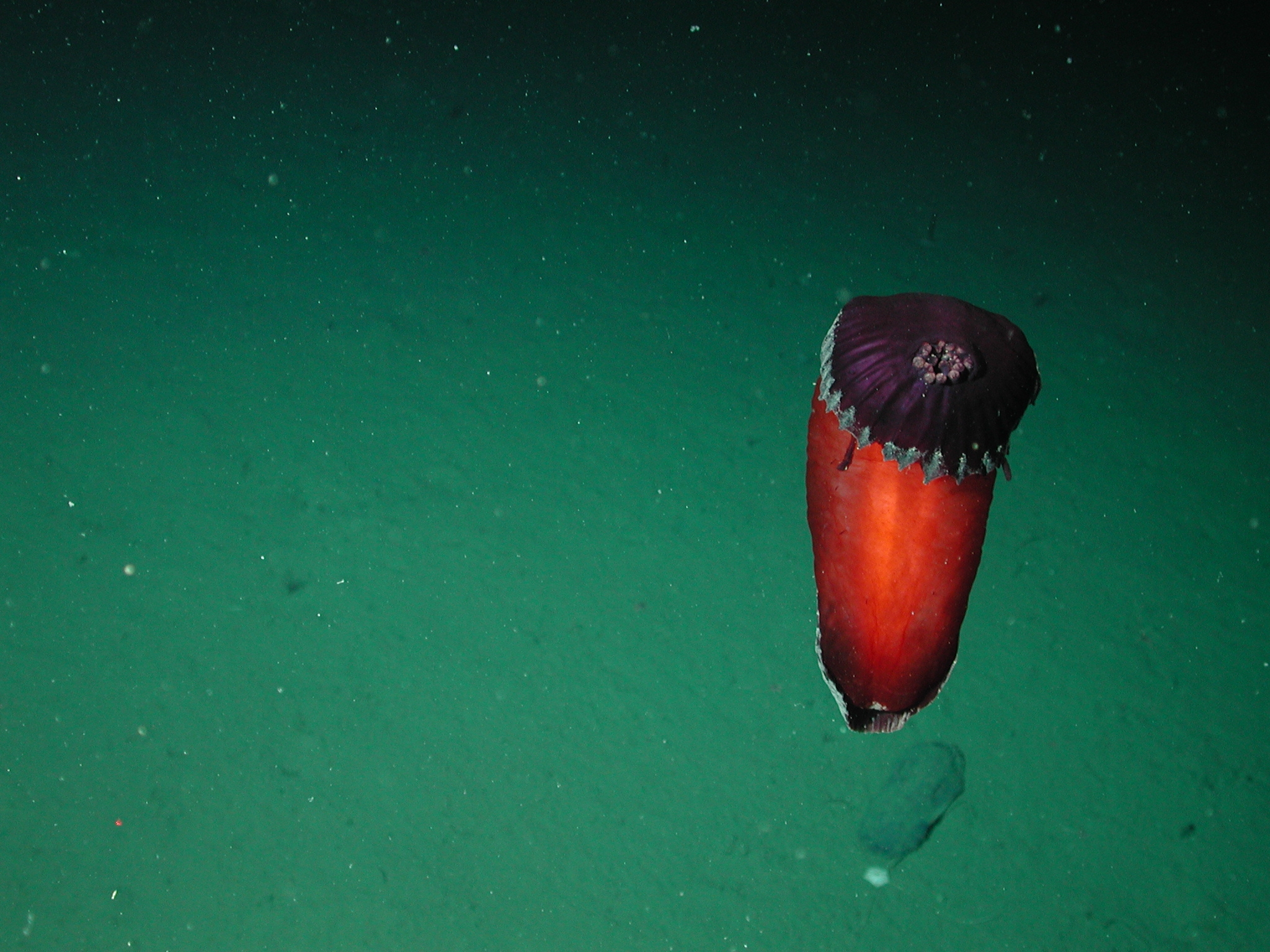 A red flat Spanish dancer sea cucumber (Benthodytes sp.) is hovering at 2789 meters water depth. California, Davidson Seamount.